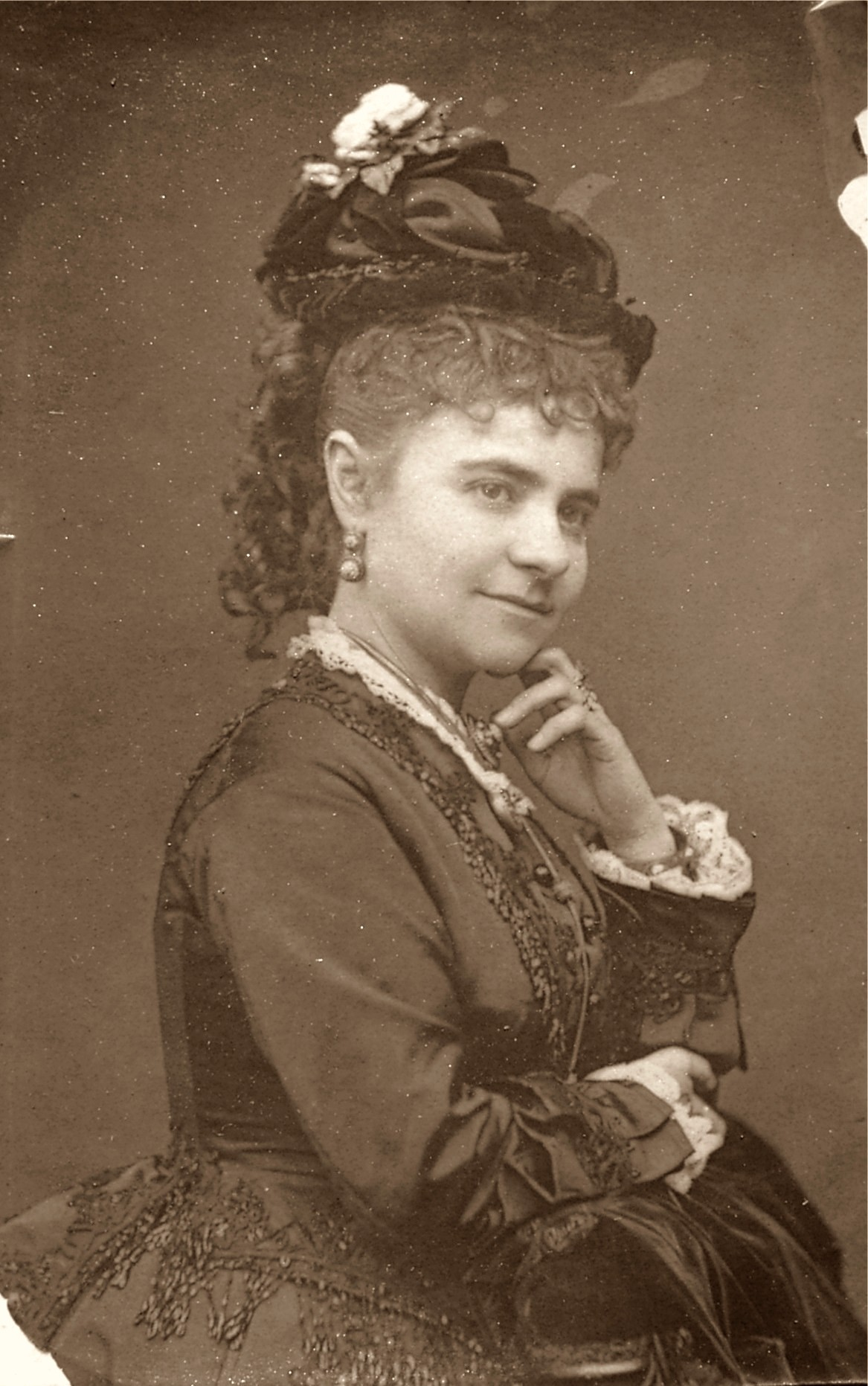 Rose Hersee 1845-1924, English Opera Singer.